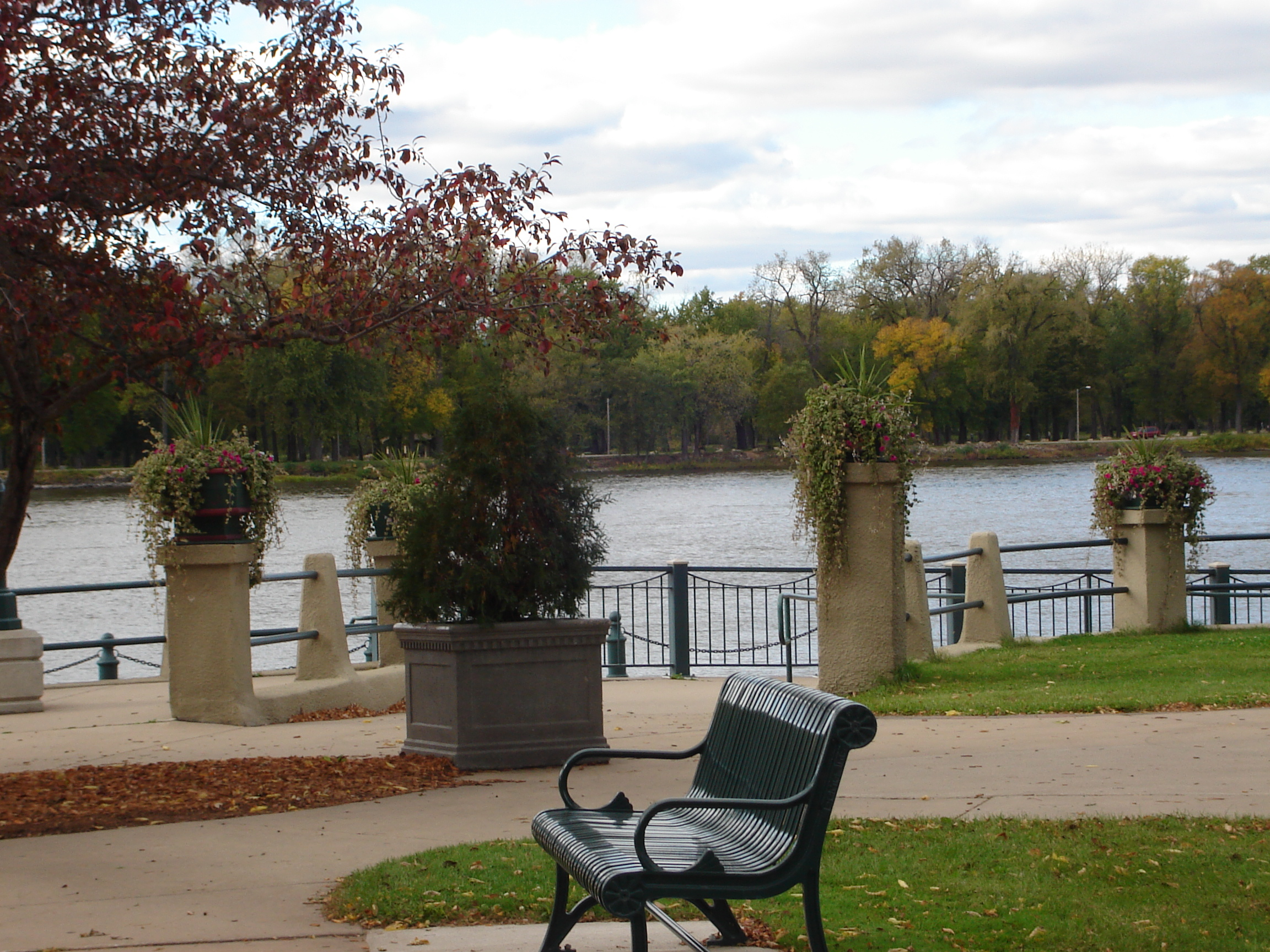 Riverside Park in La Crosse overlooking the Mississippi River